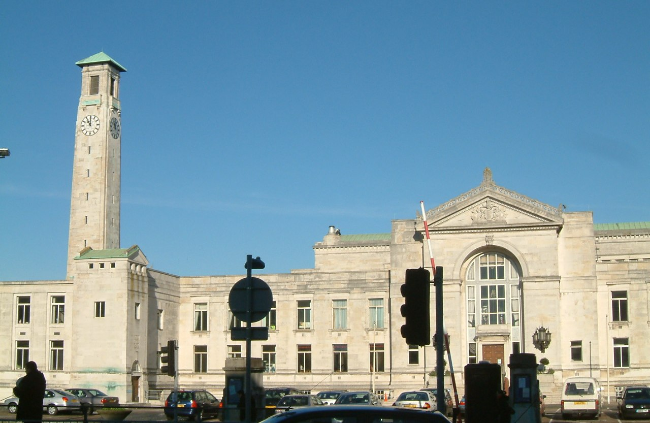 Southampton, England, United-Kingdom